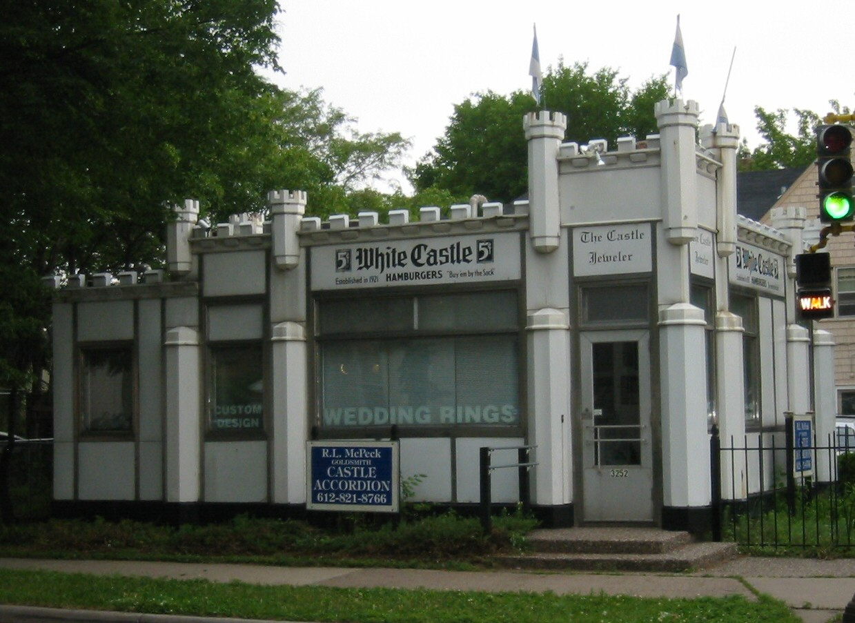 White Castle Building No. 8 at West 33rd Street and Lyndale Avenue South in Minneapolis, Minnesota. The restaurant is listed on the National Register of Historic Places as an example of a prefabricated porcelain-coated steel structure once built by the chain.